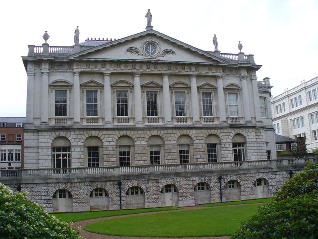 Spencer House Grand Georgian mansion - with west frontage facing on to the Queen's Walk and Green Park. Built in 1755 for the first Earl Spencer.